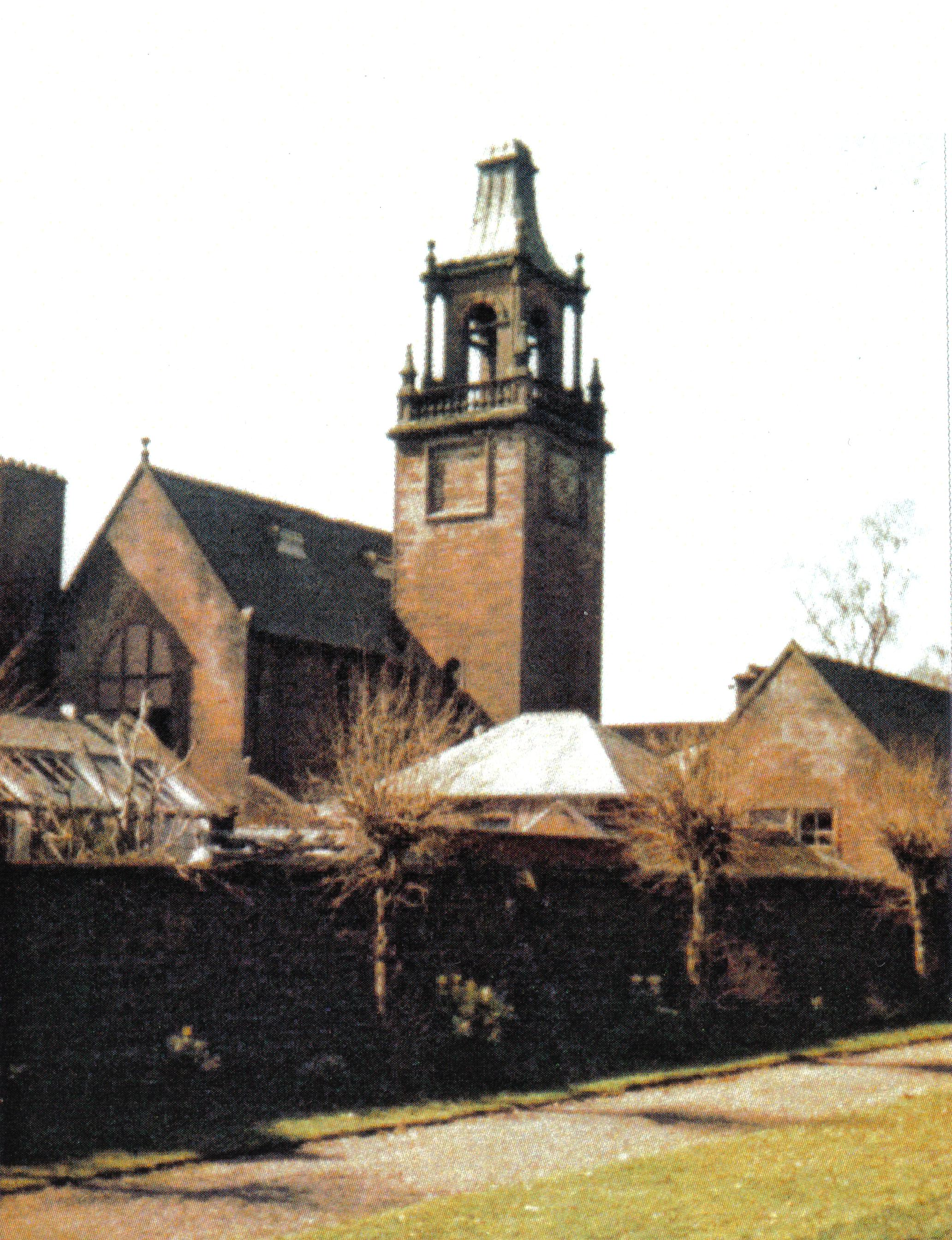 Spier's School at Beith, North Ayrshire, Scotland. Prior to demolition in the 1980s.